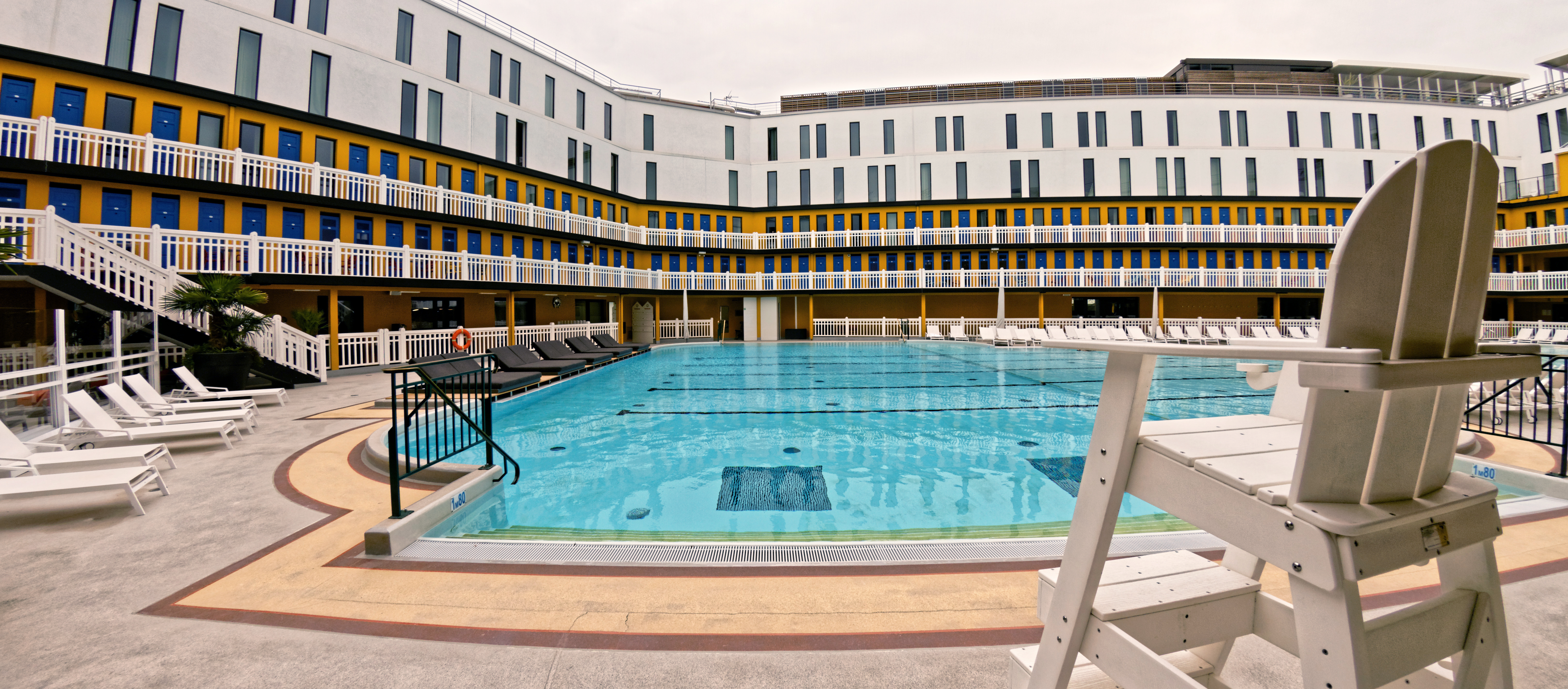 Summer pool at the Molitor in Paris.